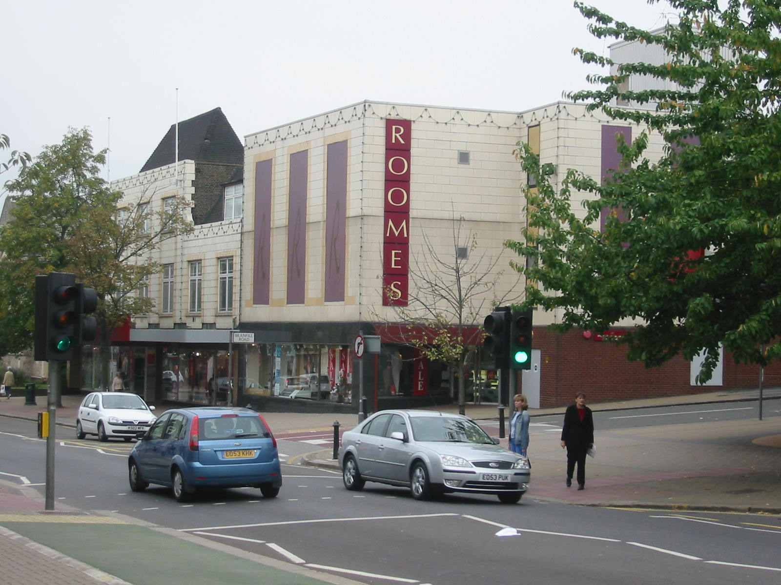 Station Road, Upminster, London, England with Roomes Stores in Background. I took the picture myself.